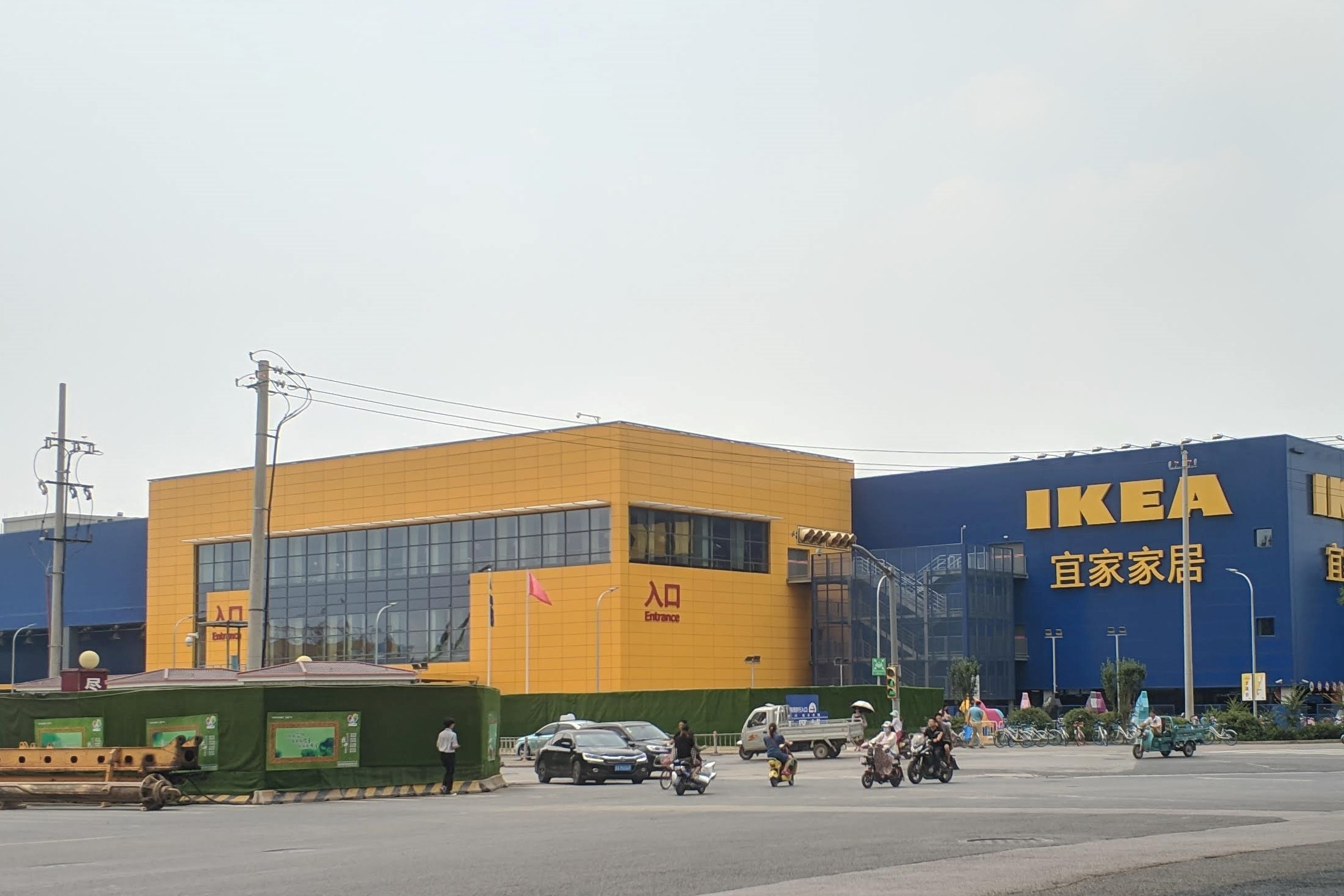 The IKEA store in Jinan, shot in June 2019.